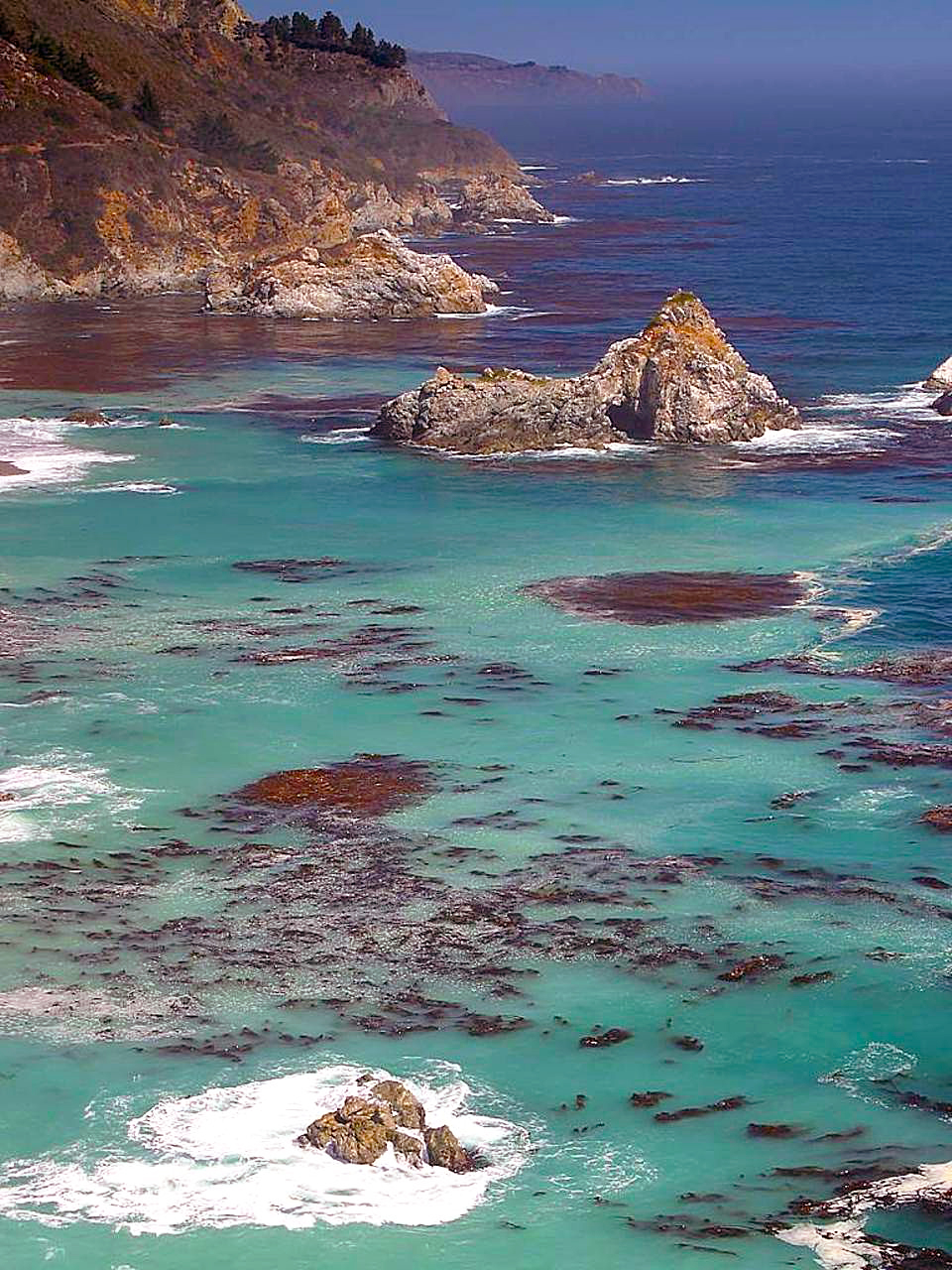 Image title: Big sur ocean coastlines Image from Public domain images website